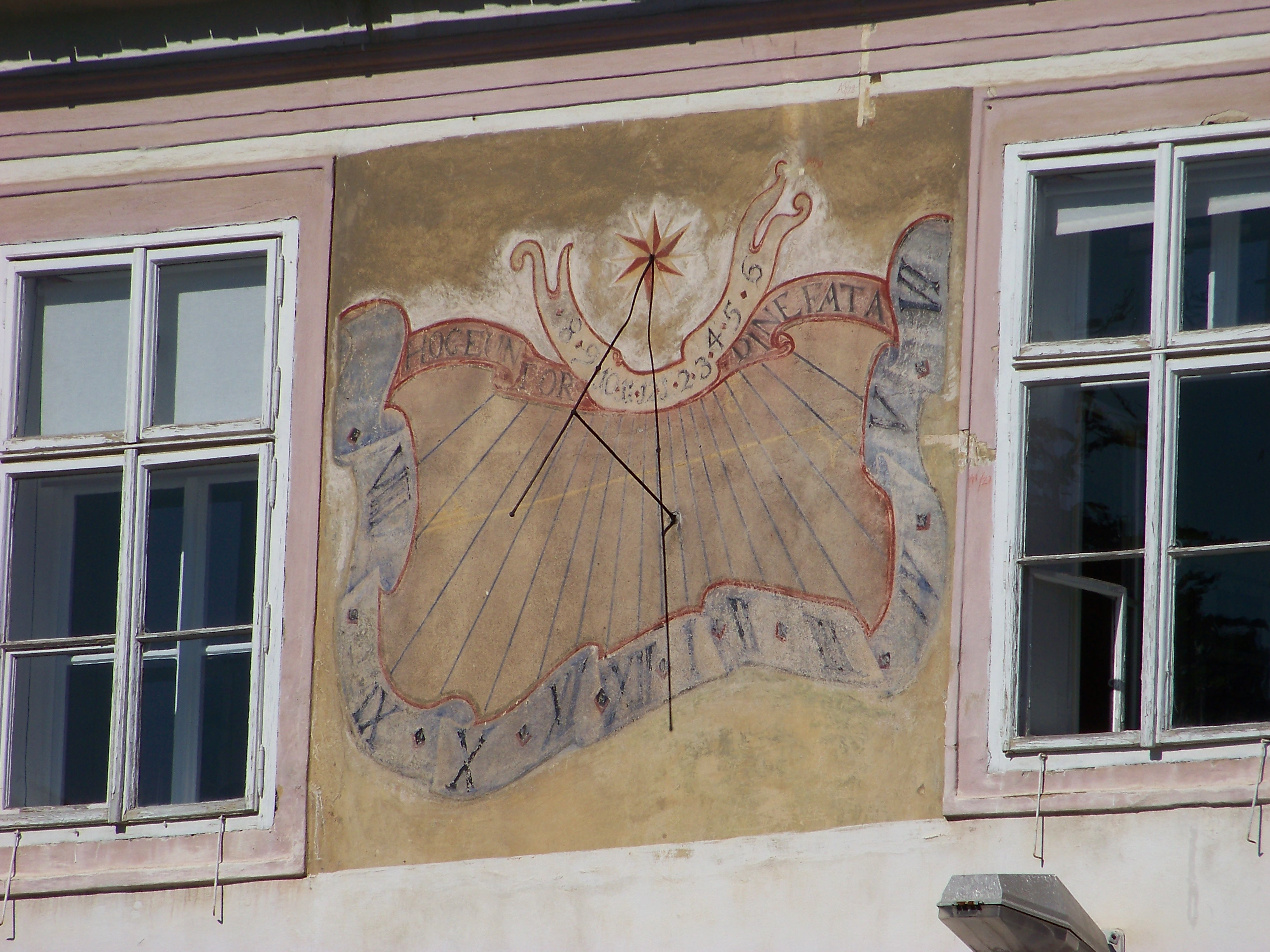 Prague-Jinonice, the Czech Republic. Na Vidouli 1/1, Jinonice Castle, a sundial at the north side of the courtyard. - OpenStreetMap(Info)